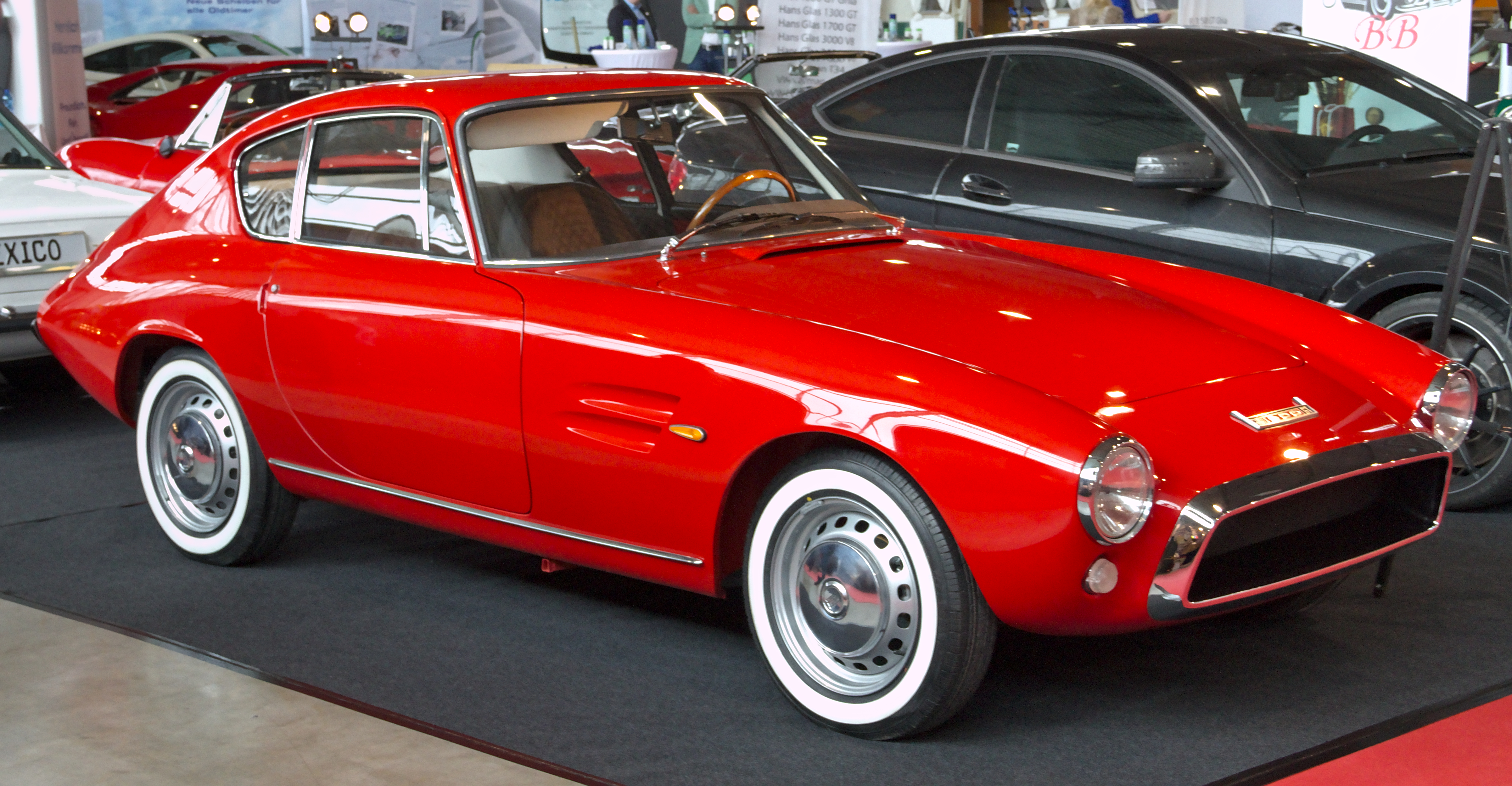 Fiat-Ghia_1500_GT at Retro Classics 2020